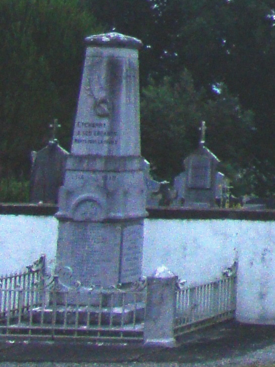 Etcharry (Pyr-Atl, Fr)